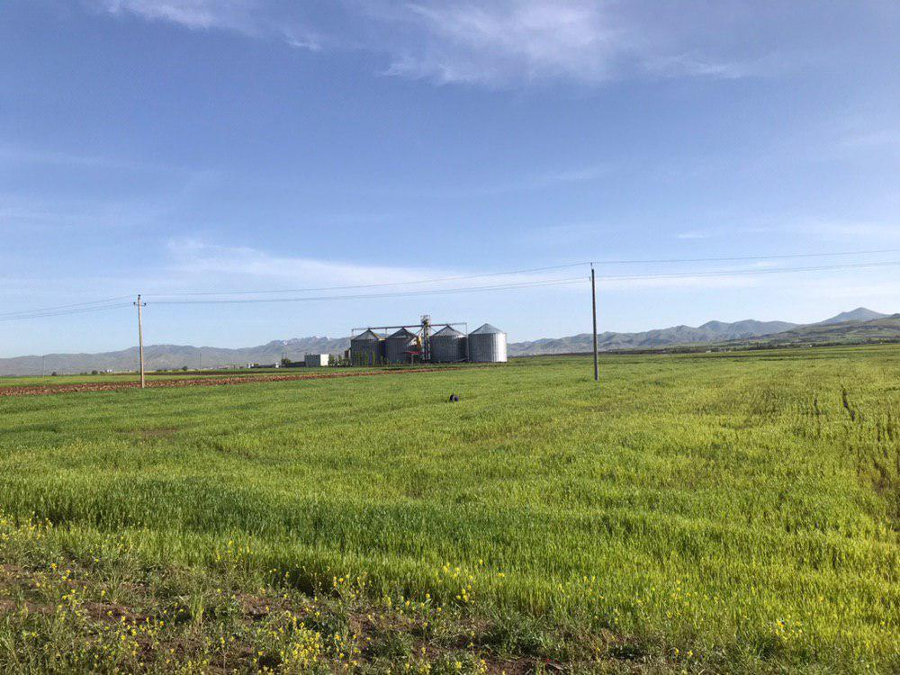 سیلوی گندآب